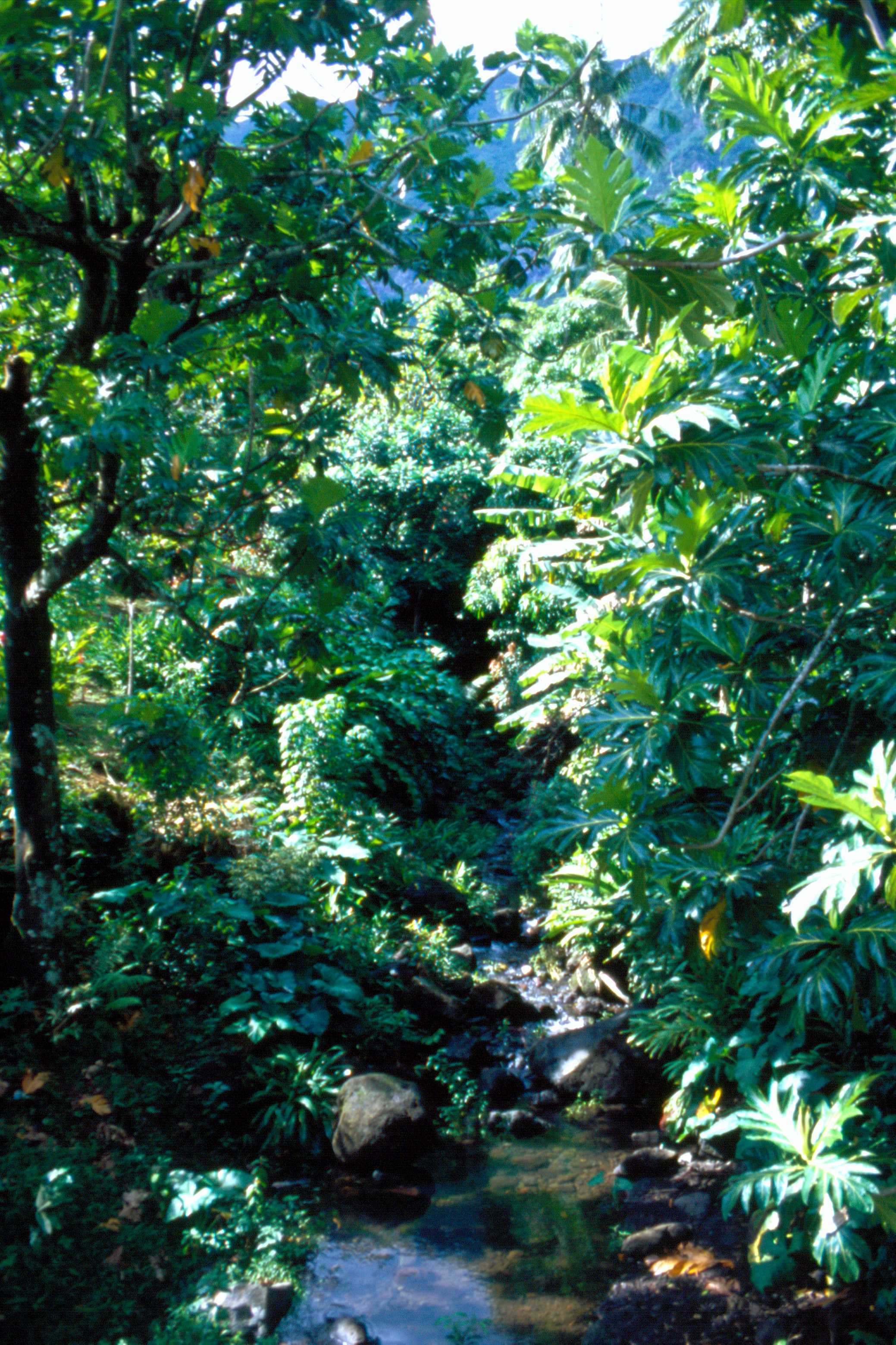 A valley with tropical vegetation on Fatu Hiva Island, Marquesas Islands, French Polynesia